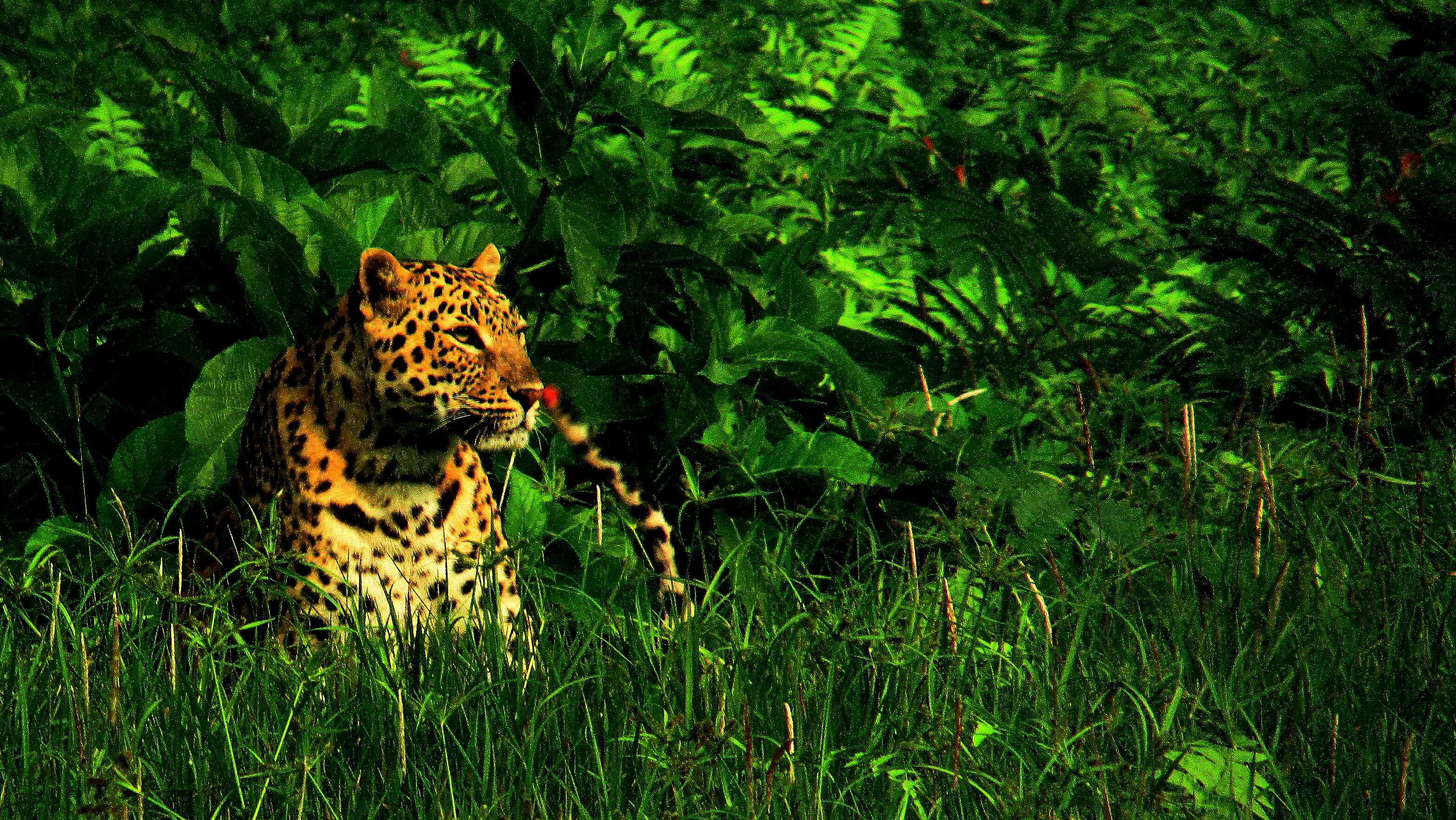 jaldapara safari